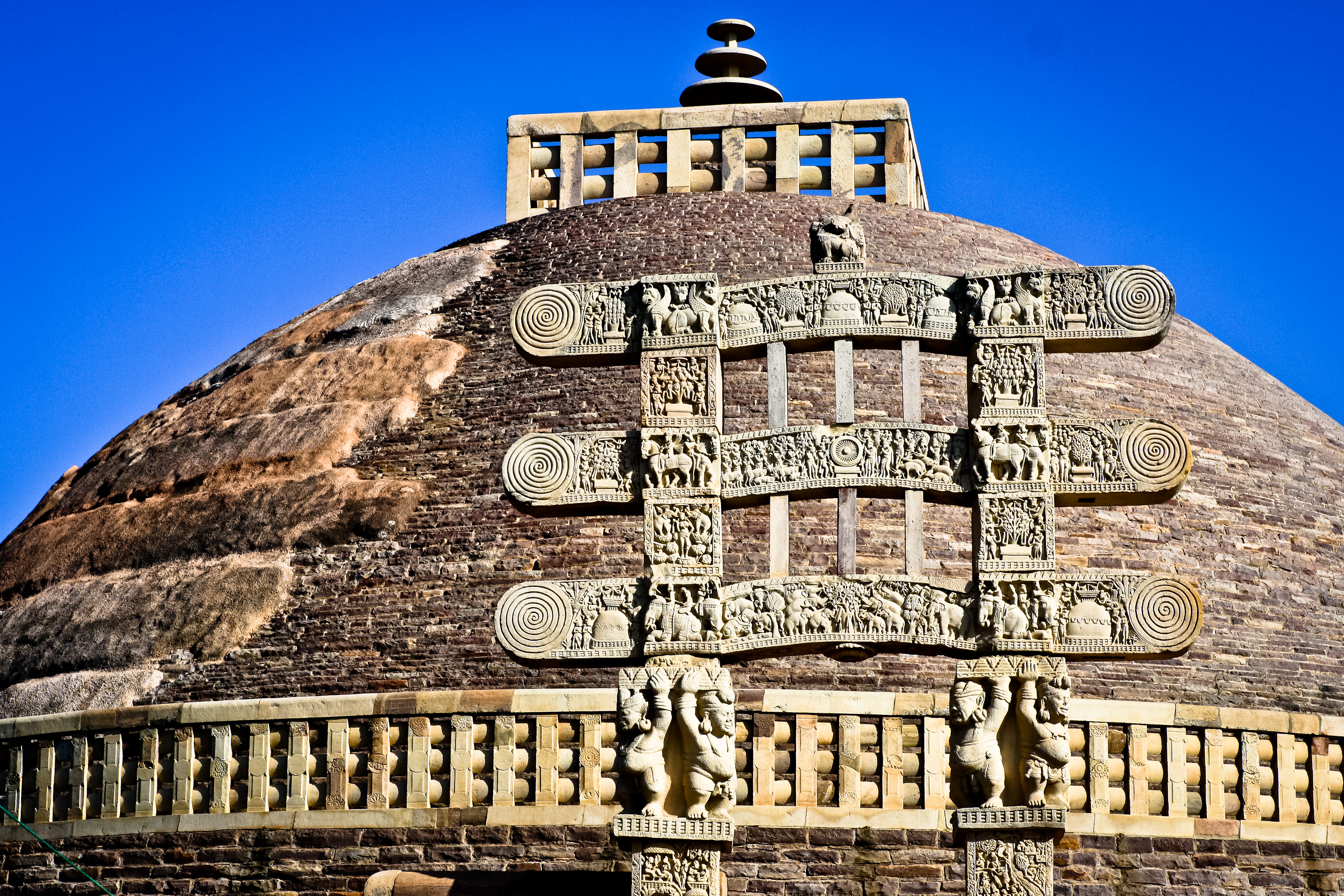 view of sanchi stupa along with a pillar.